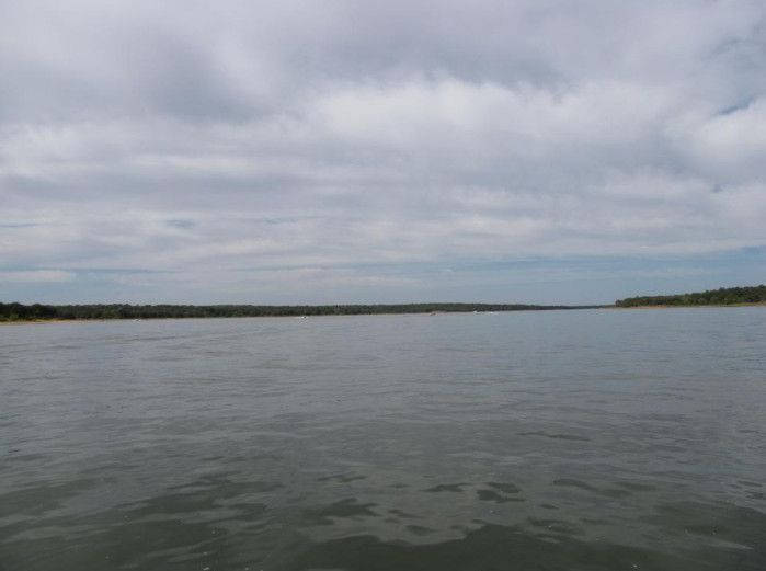 A photo of Lake Thunderbird taken on July 22, 2009.